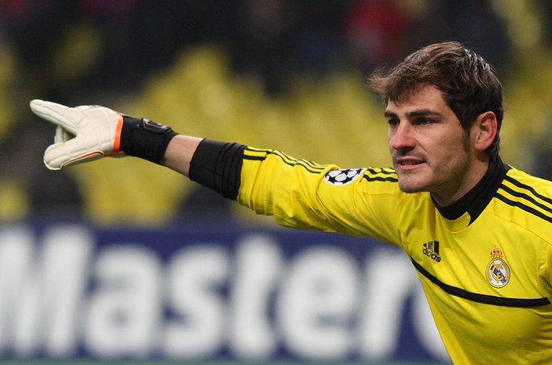 Iker Casillas Fernández